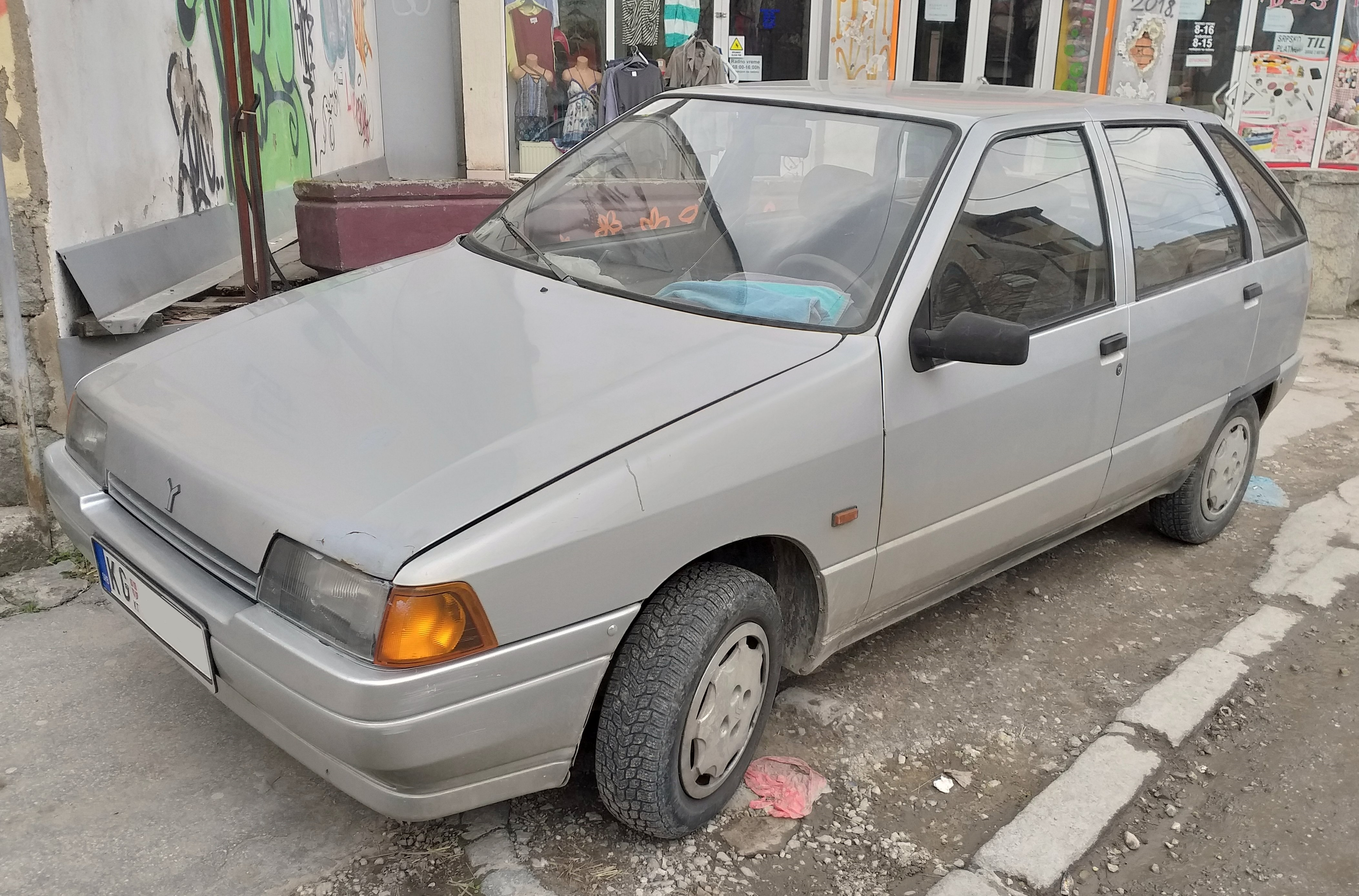 Yugo Florida 1.3 EFI